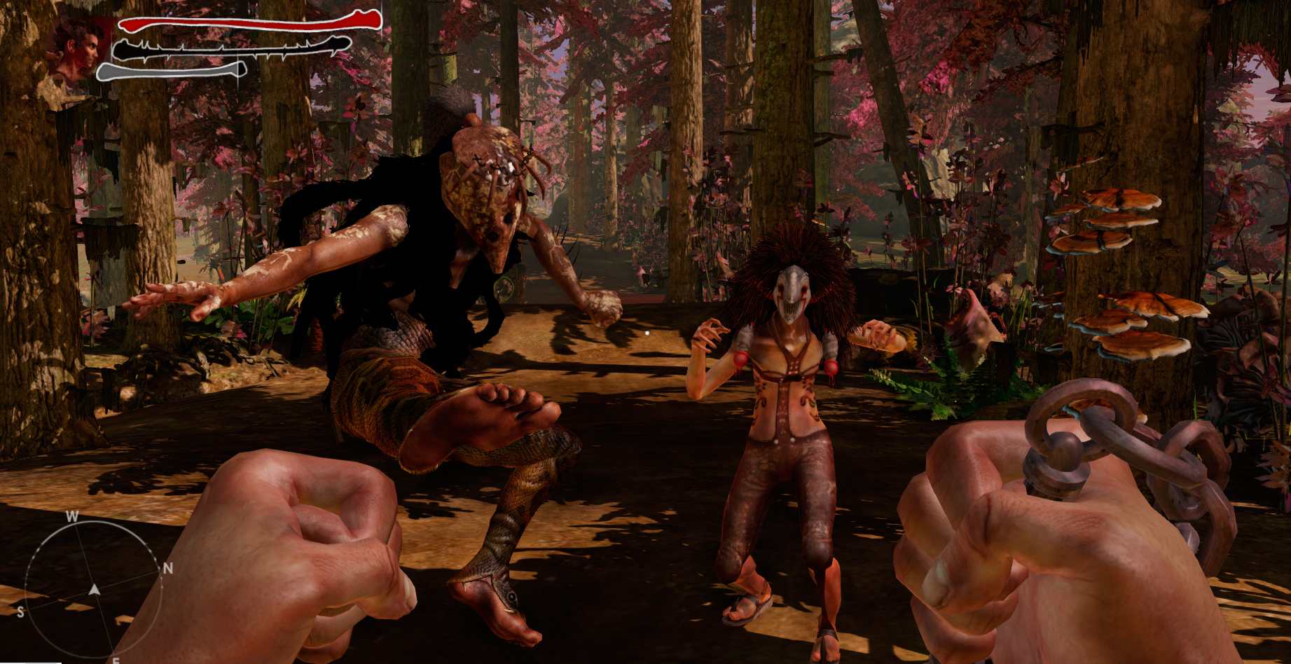 Zeno Clash II screenshot. Released in 2013, the game was developed by ACE Team and is powered by Unreal Engine 3.